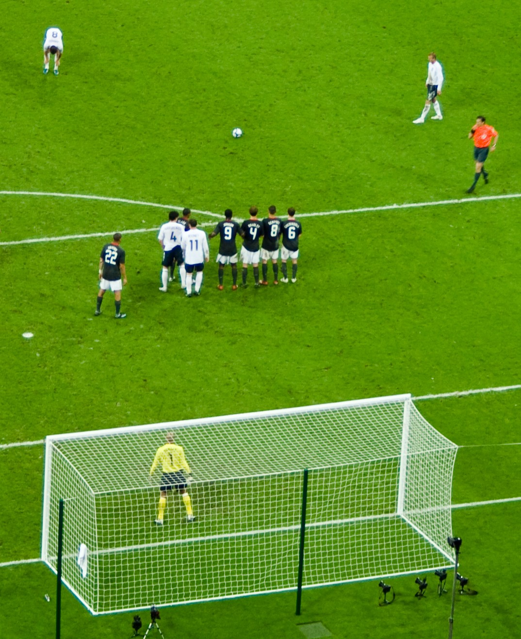 Beckham prepares for a set piece. Wow: Beckham, Rooney, Hargreaves, Gerrard, Lampard, A Cole, and Terry